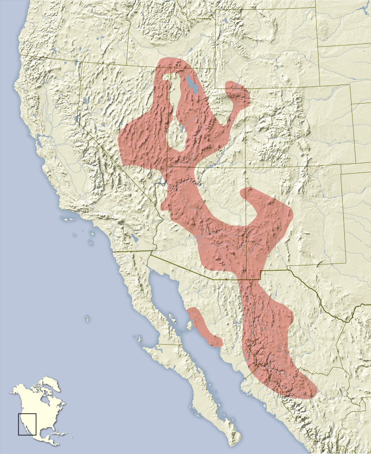 Distribution map of the cliff chipmunk